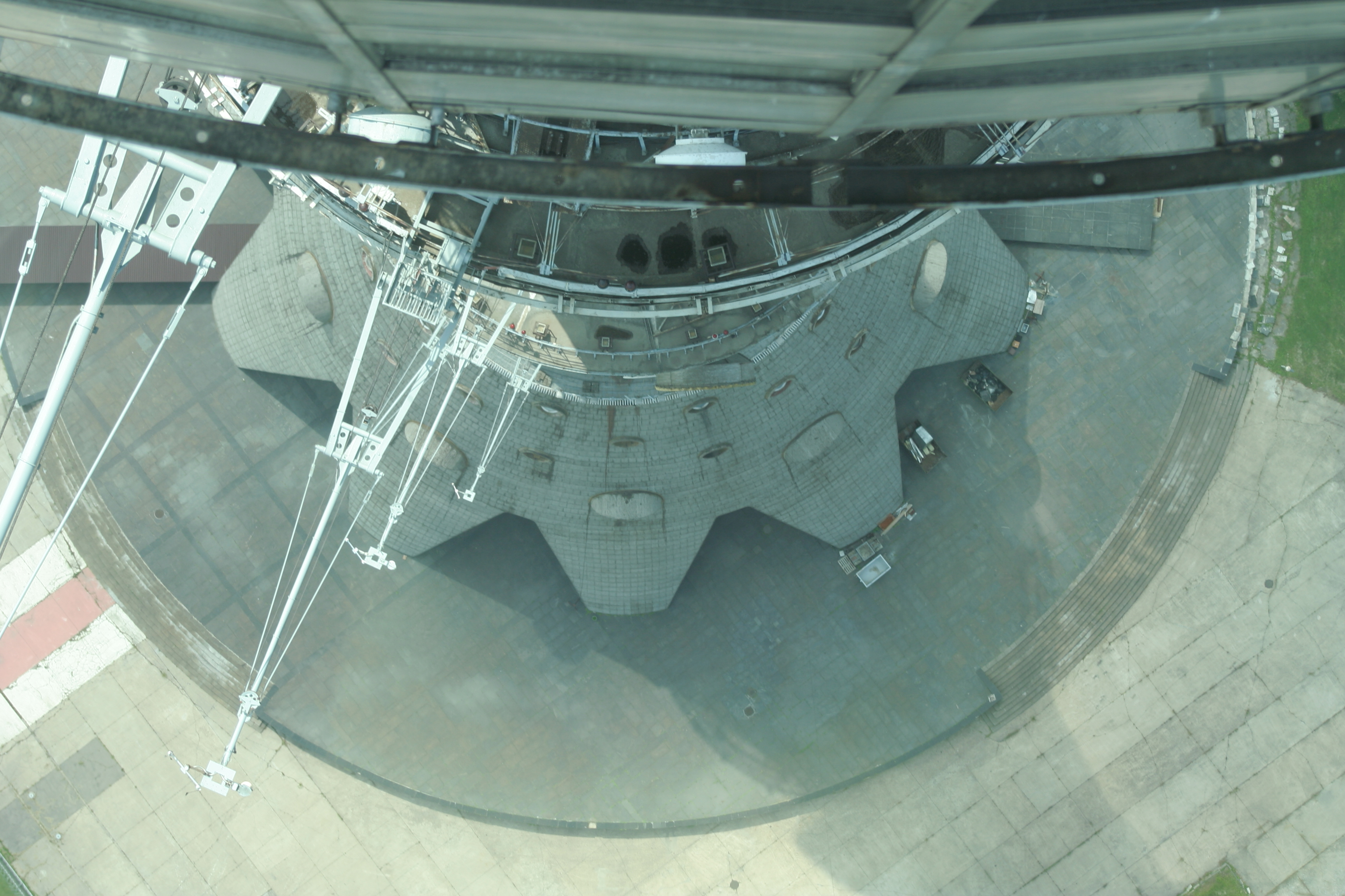 Views from the observation deck of the Ostankino Tower, Moscow